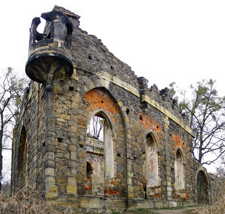 View of the artificial ruin near Pillnitz